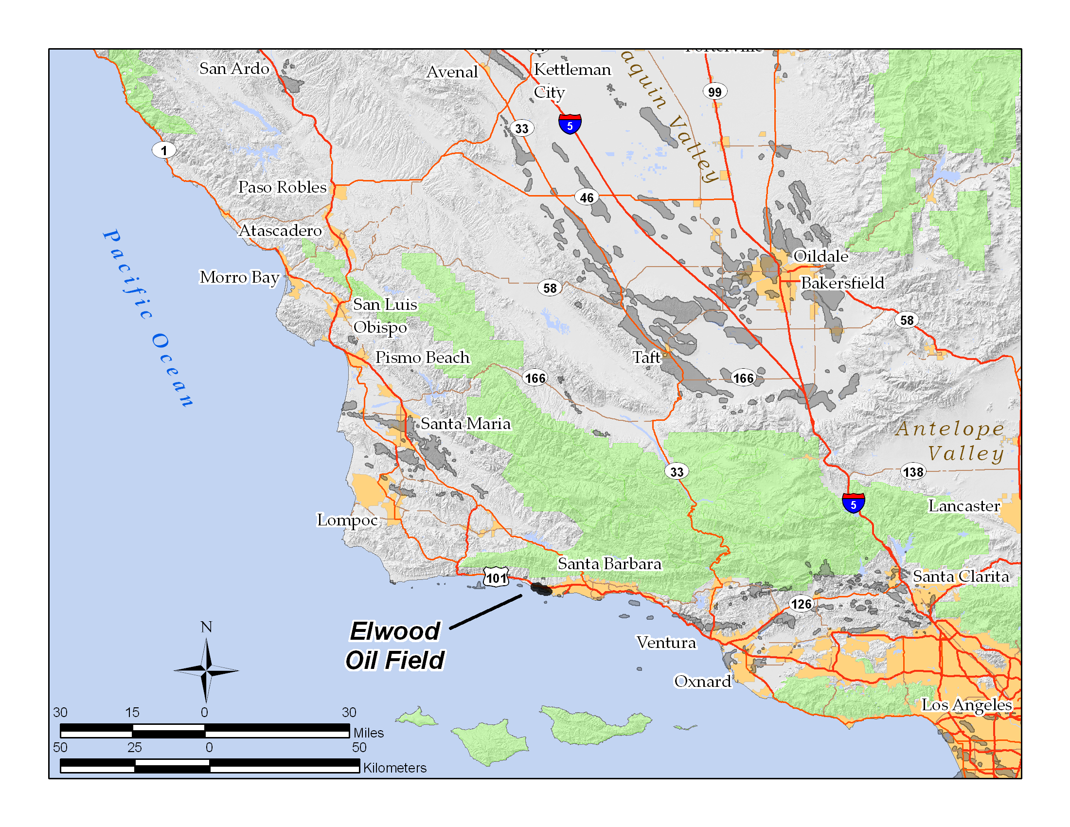 Map of Elwood Oil Field; GFDL; by self in ArcGIS 9.2